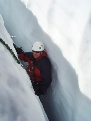 Photo of a person in a crevasse as a subject in a Crevasse Rescue course. Taken in the Tantalus Range of British Columbia in 2006